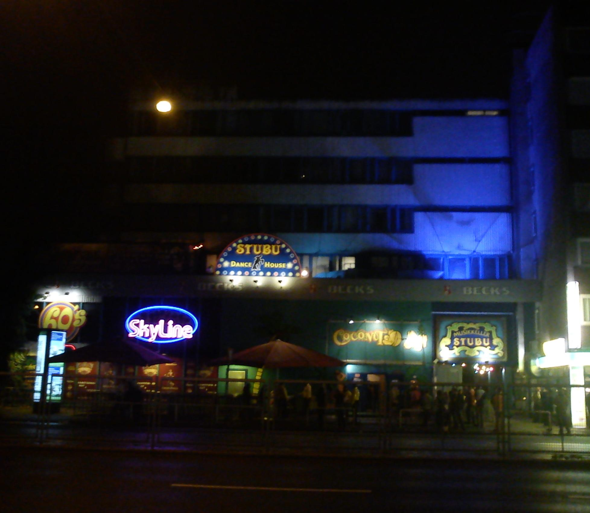 The nightclub StuBu in Bremen at night